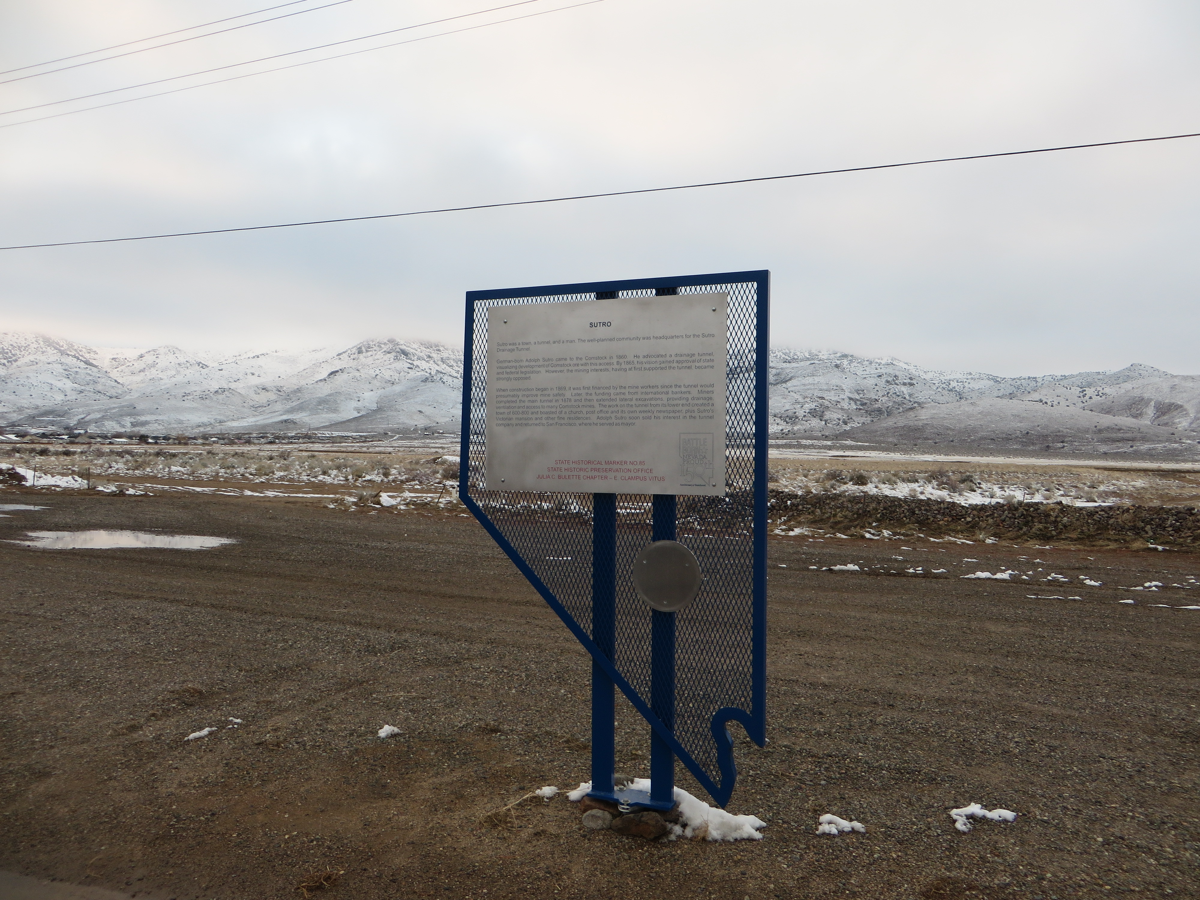 Sutro was a town, a tunnel, and a man. The well-planned community was headquarters for the Sutro Drainage Tunnel. German-born Adolph Sutro came to the Comstock in 1860. He advocated a drainage tunnel, visualizing development of Comstock ore with this access. By 1865, his vision gained approval of state and federal legislation. However, the mining interests, having at first supported the tunnel, became strongly opposed.